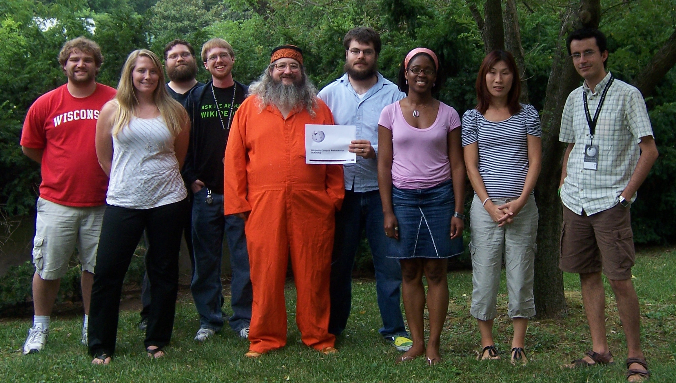 Ambassadors at campus ambassador training event at IU in Bloomington. From left to right: Daniel Simanek, Casey Coker, Justin Anthony Knapp, Rob Schnautz, Michael Lowrey, Adam Hyland, Chanitra Bishop, Mayuko Nakumara, Saeed Moaddeli.